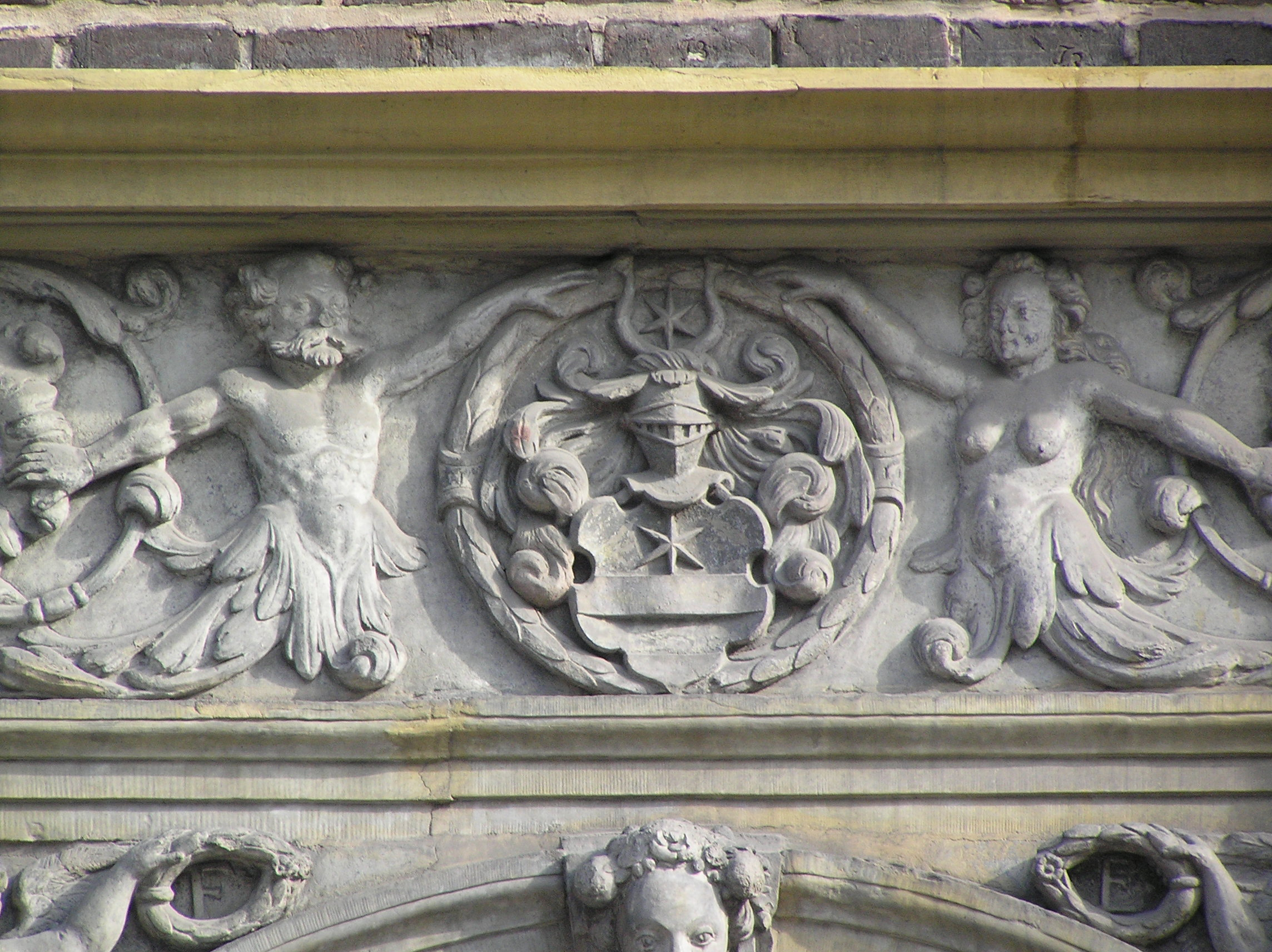 Toruń, Eskens House, portal detail